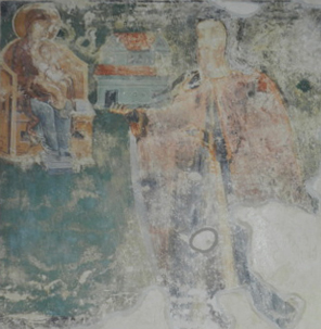 Ktitor fresco of Savatije, holding the Church model of the Piva Monastery. Painted between 1604 and 1639.